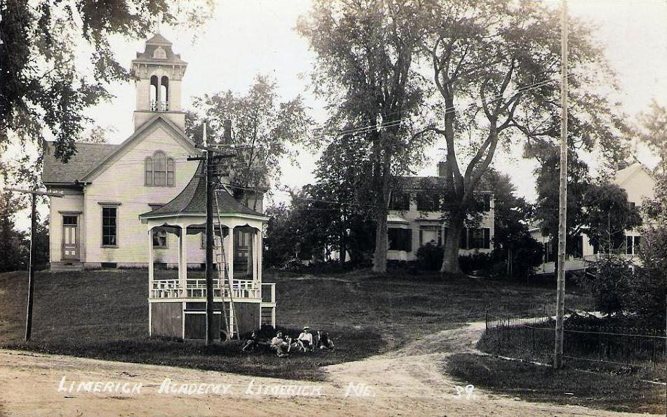 Limerick Academy and town center, Limerick, Maine